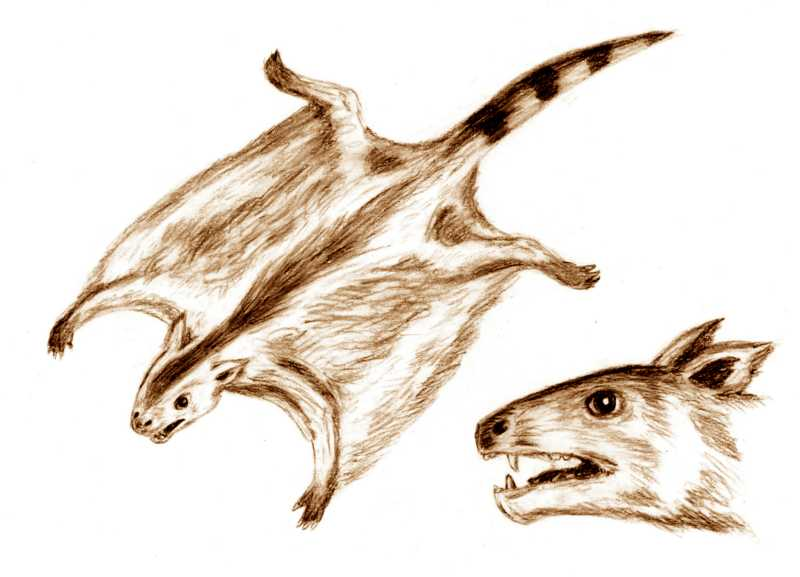 Volaticotherium, pencil drawing, head based on skull image published by Meng in Nature, Dec 2006. Author:User:ArthurWeasley